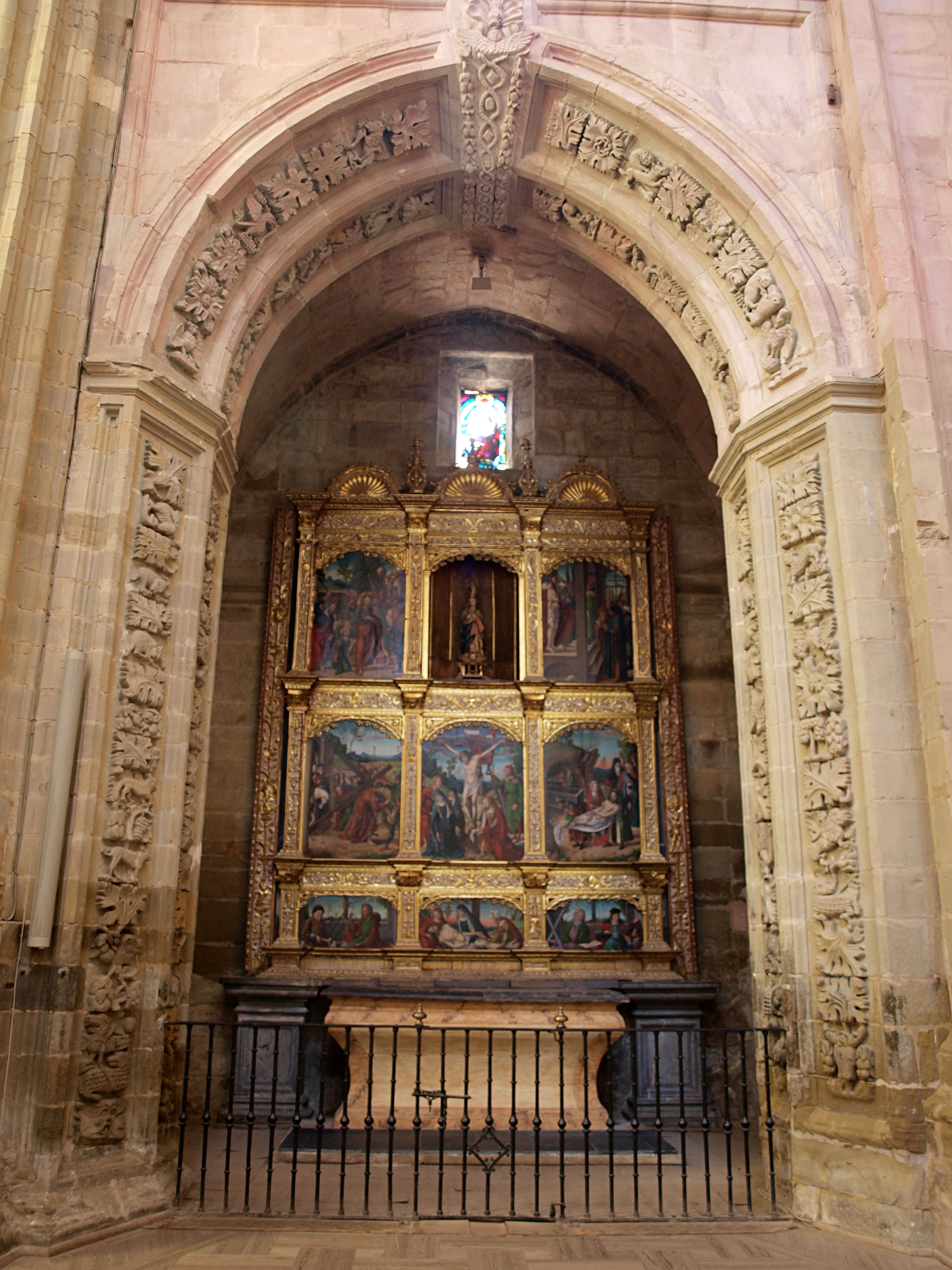 Astorga Cathedral, Astorga (Province of León, Spain).